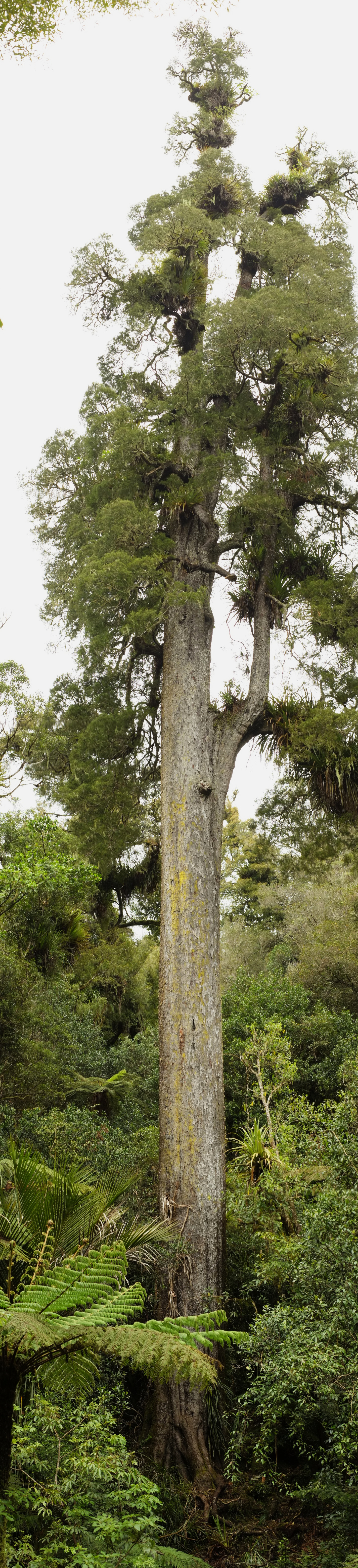 Tallest kahikatea, Pirongia Forest - portrait panorama. At 66.5m, this is the tallest recorded native tree in New Zealand.